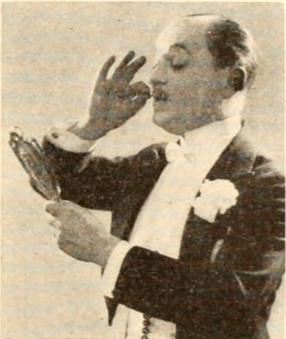 From the lost American silent film Experience (1921), on page 51 of the August 1921 Photoplay. "Smirking Conceit with his ever present mirror." Robert Schable (1873 – 1947).